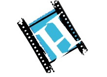 This is the Haydenfilms Institute logo